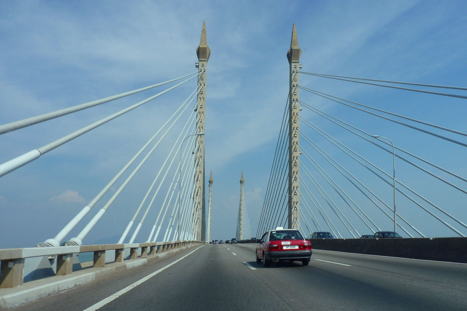 Penang Bridge main span viewed from the roadway in Feb 2011.